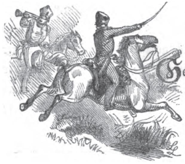 Engraving showing the Prussian Major von Plathen during the Battle of Möckern (April 5th, 1813)